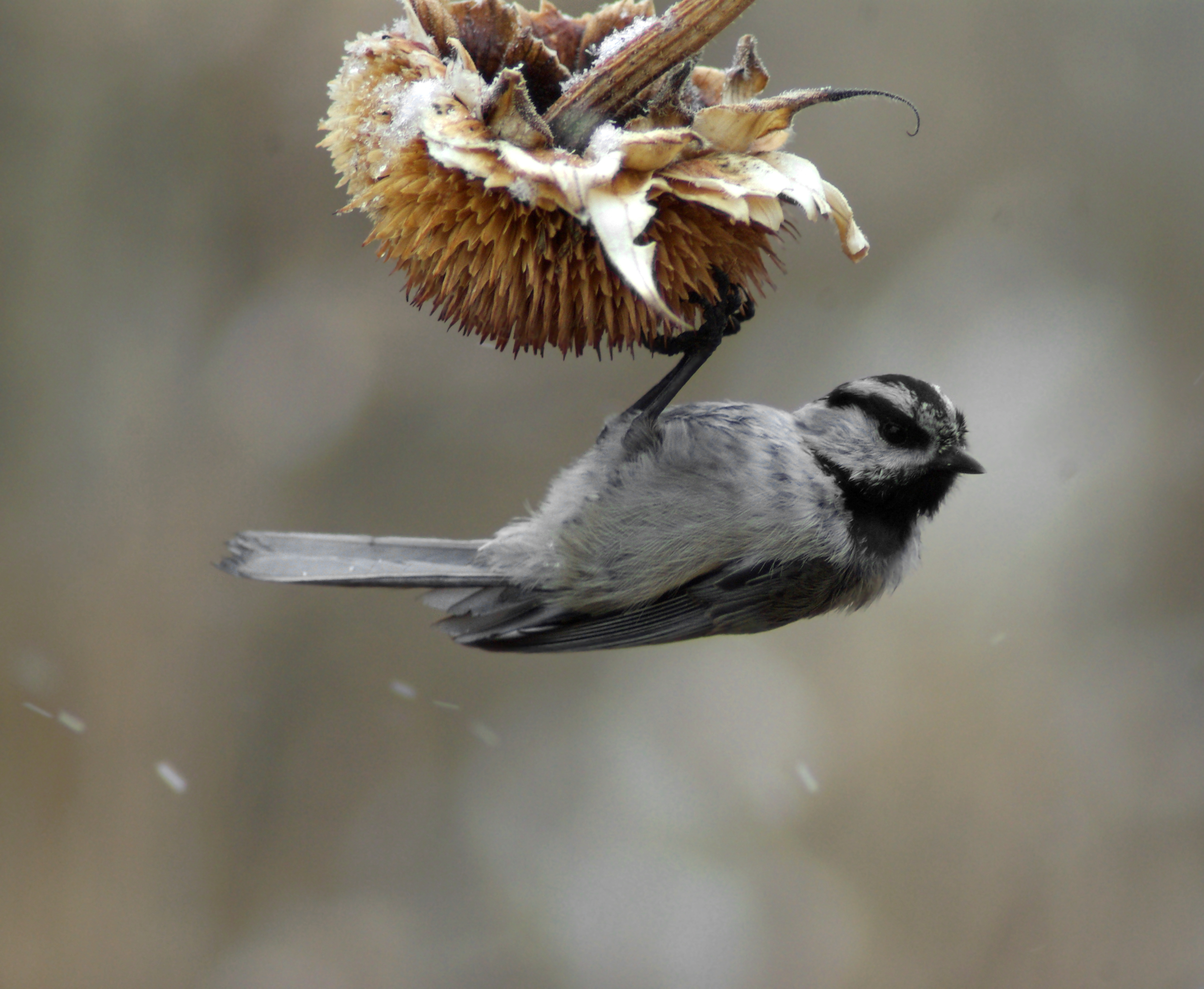 Mountain Chickadee, Poecile gambeli, probably subspecies gambeli, on sunflower (Helianthus annuus wild type) seedhead, with snowflakes, Española, New Mexico.